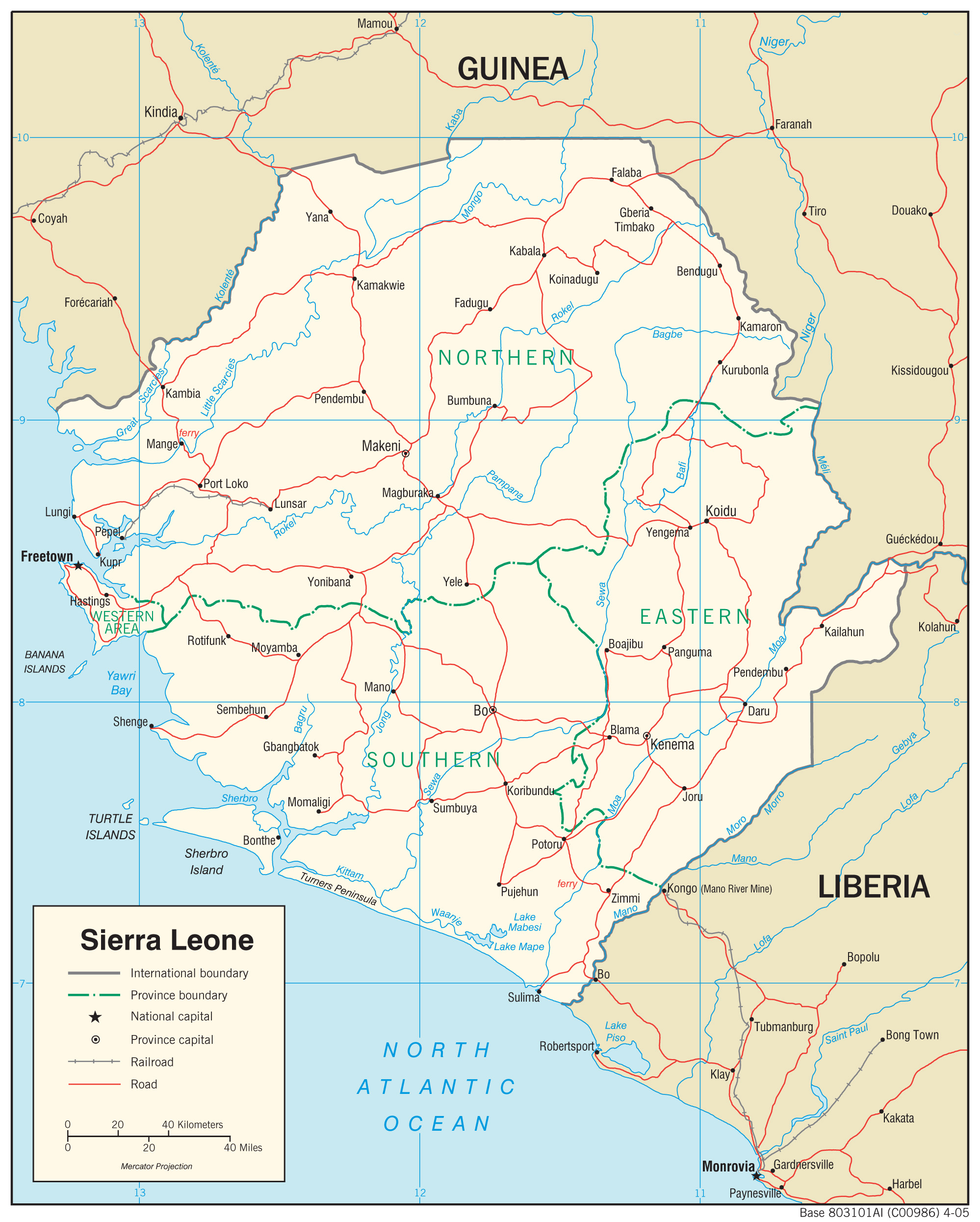 Transport system in Sierra Leone, 2005.